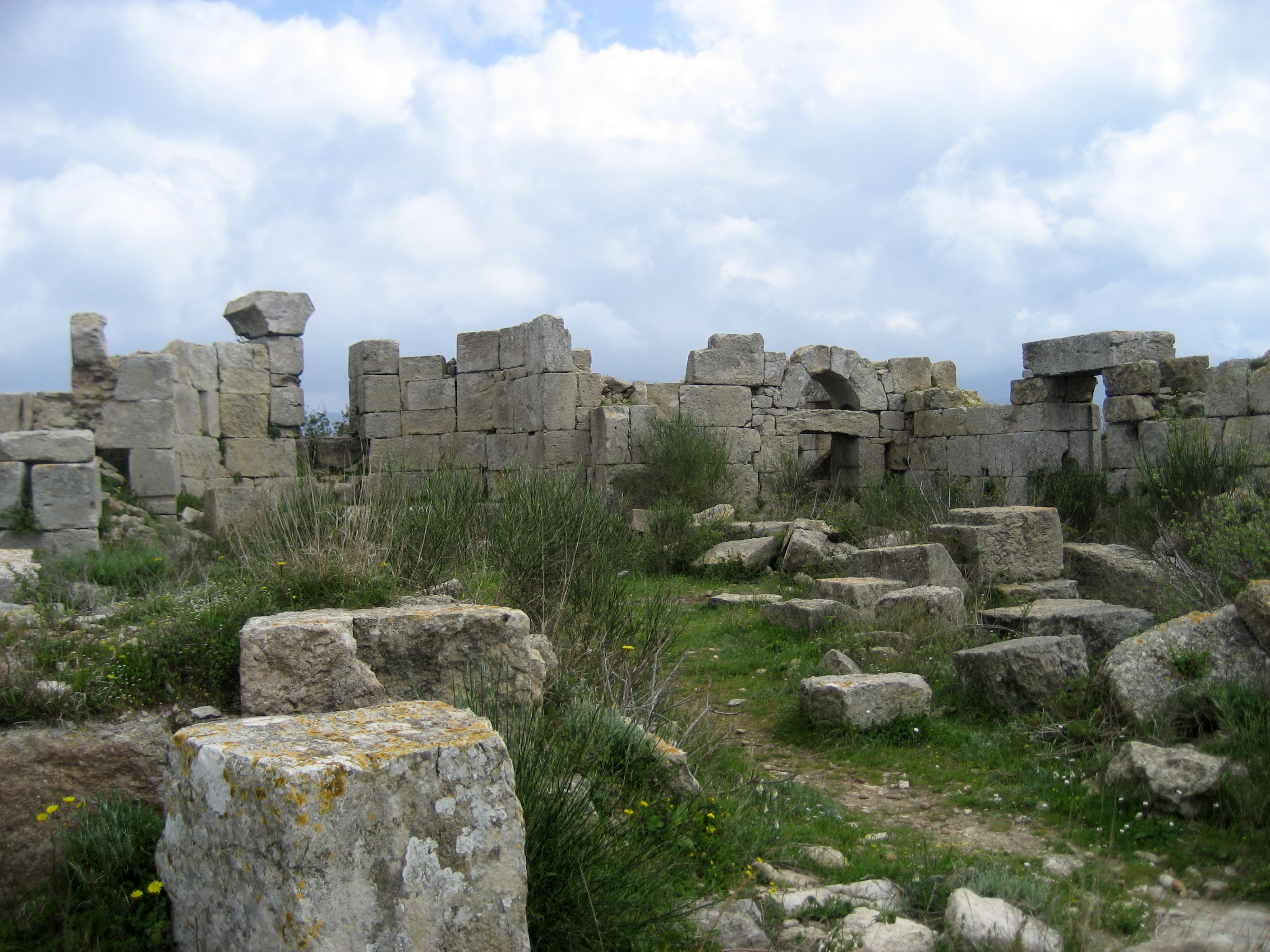 Ruins of the Monastery of St Simeon Stylites the Younger, near Antakya, Hatay province, Turkey.